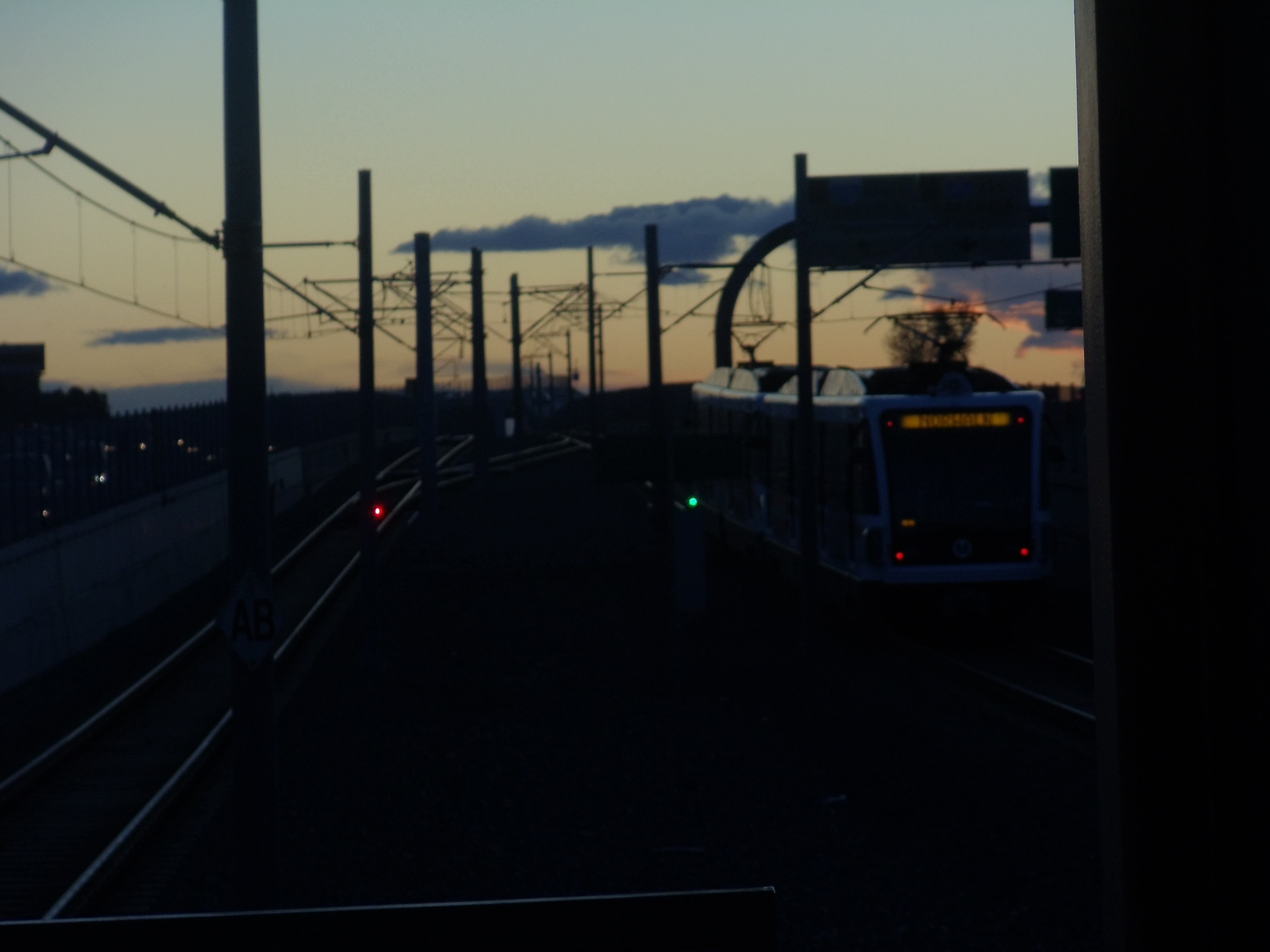 Metro Green Line train departing Vermont Station.